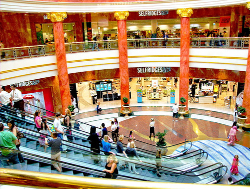 Selfridges in the Trafford Centre, Greater Manchester, England